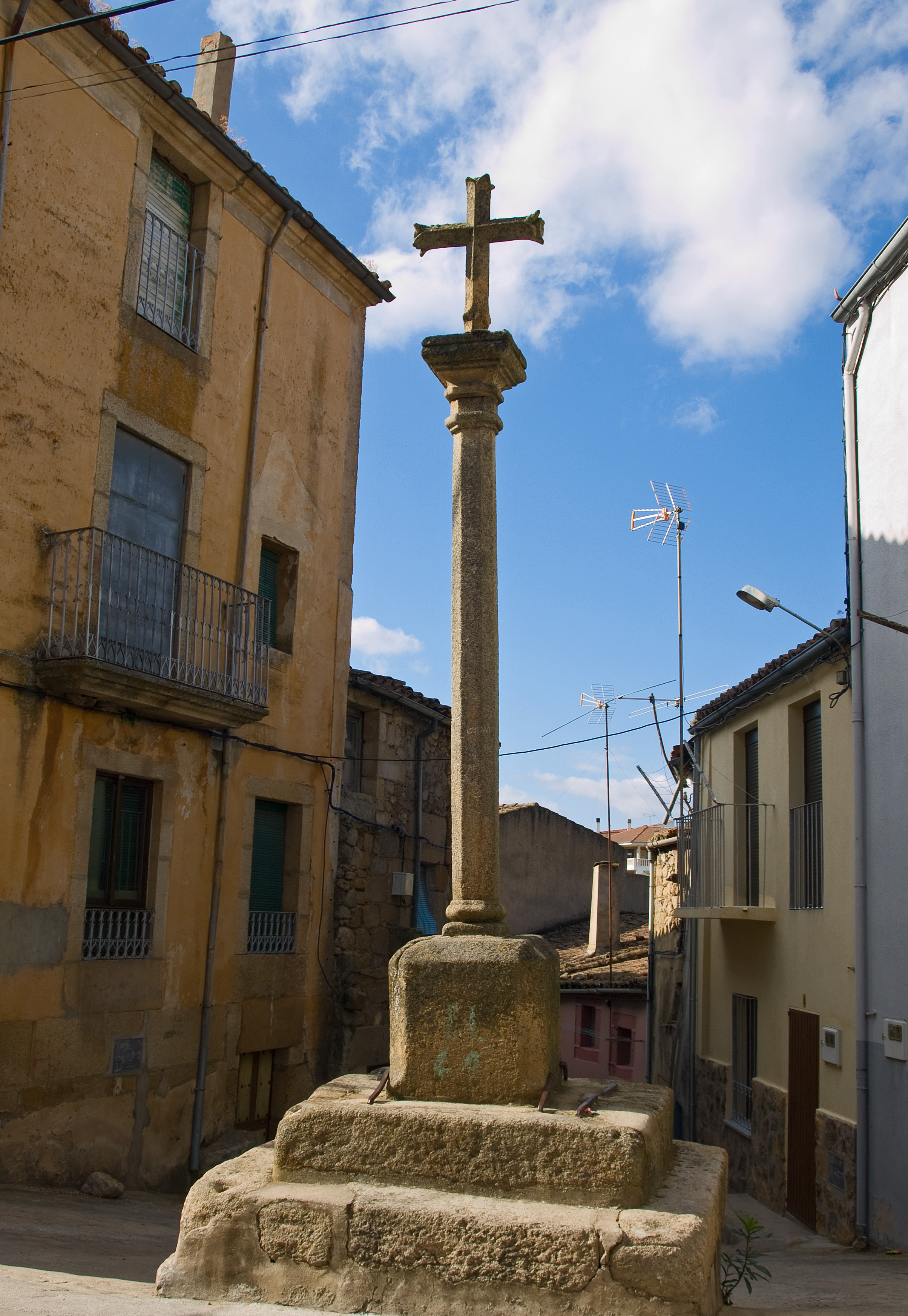 Street in Fermoselle, a spanish town in the province of Zamora